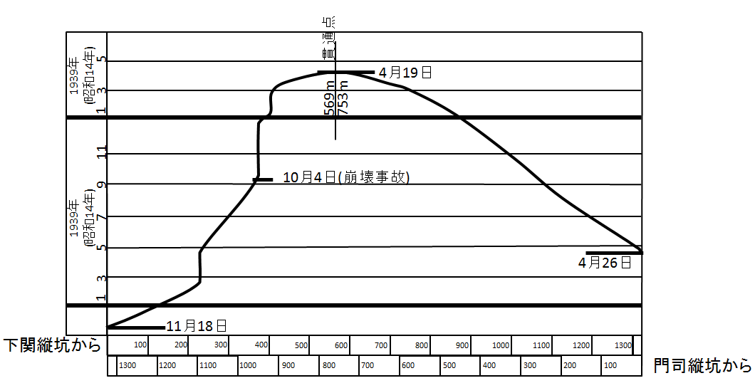 Progress of service bore drilling, Kammon railway tunnel.